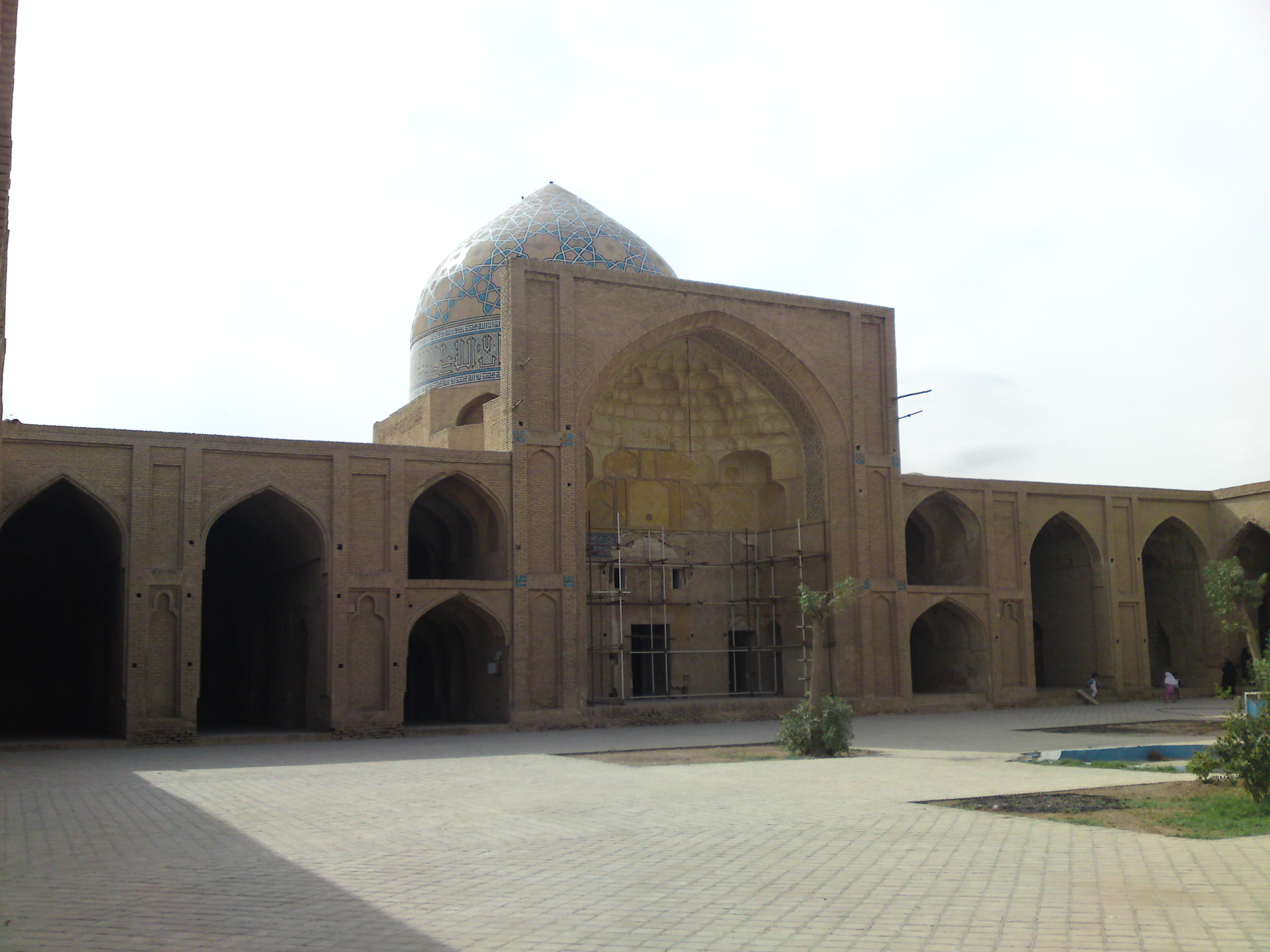 View of Jameh Mosque of Saveh